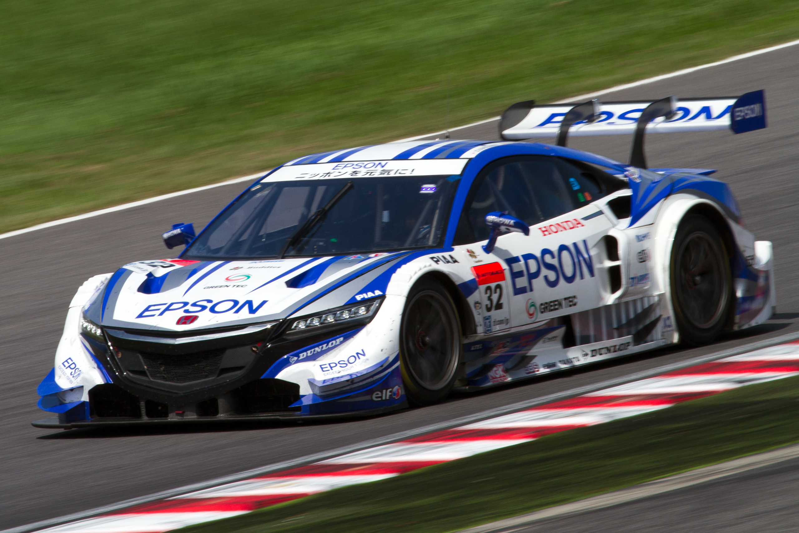 Super GT 2014 Rd.6 Suzuka 1000km: Bertrand Baguette (Nakajima Racing)